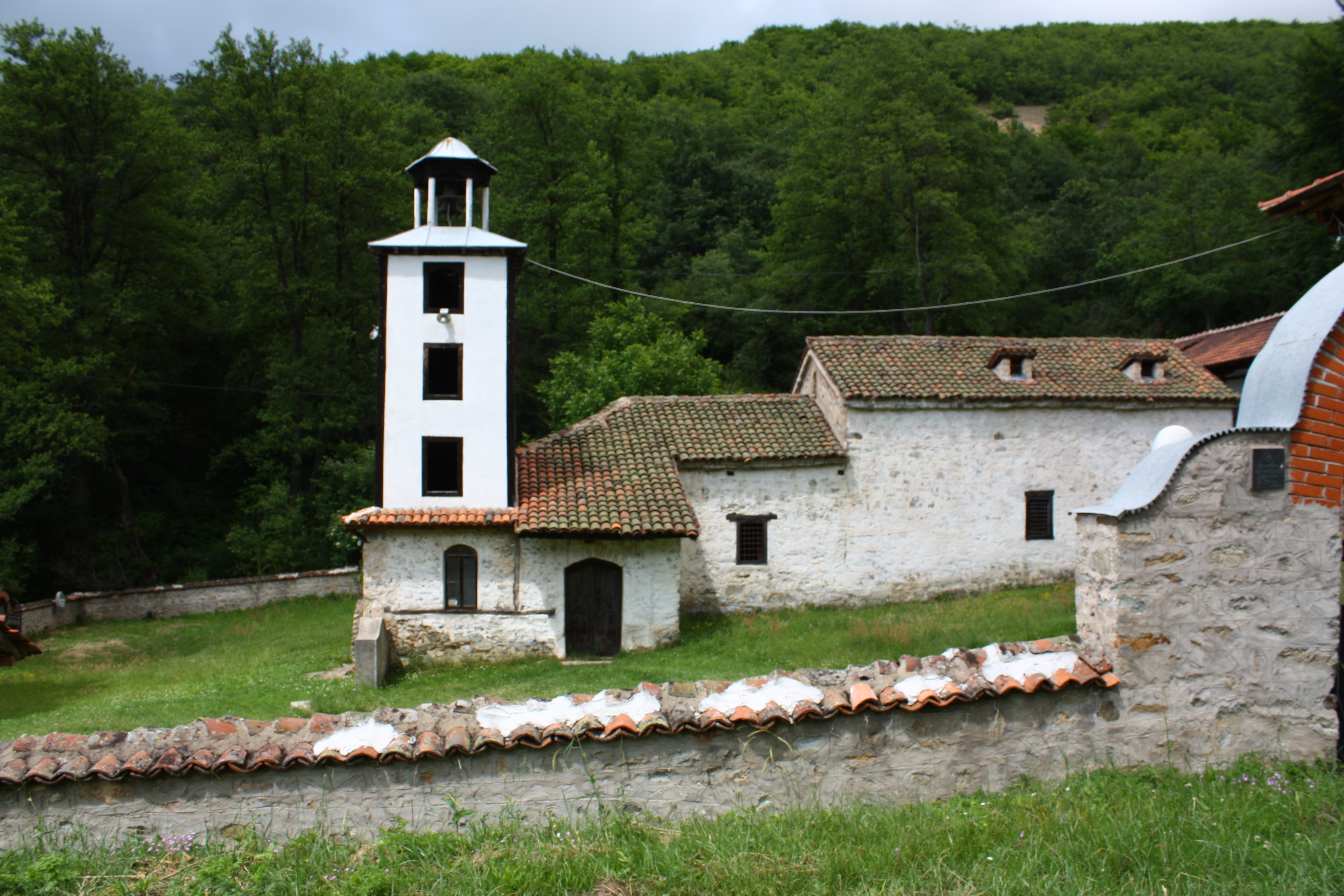 Nativity of the Theotokos Church, the main church of Slivnica Monastery in Slivnica, Macedonia